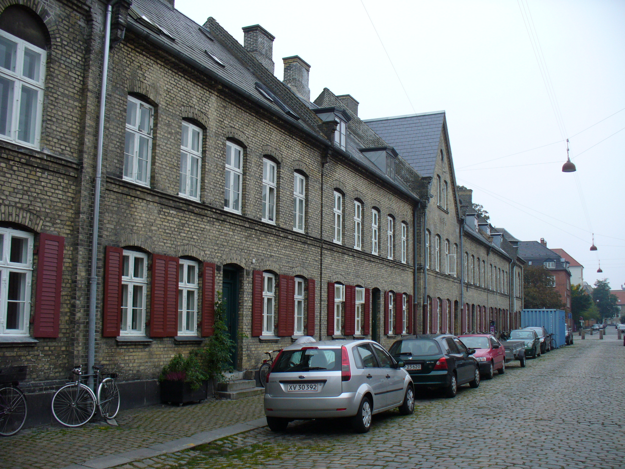 The street Sankt Pauls Gade in the area Nyboder in Copenhagen.